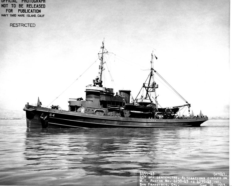 The U.S. Navy fleet tug USS Navajo (AT-64) underway off San Francisco, 16 June 1943. Mare Island Navy Yard photo # 4455-43, 6/16/43